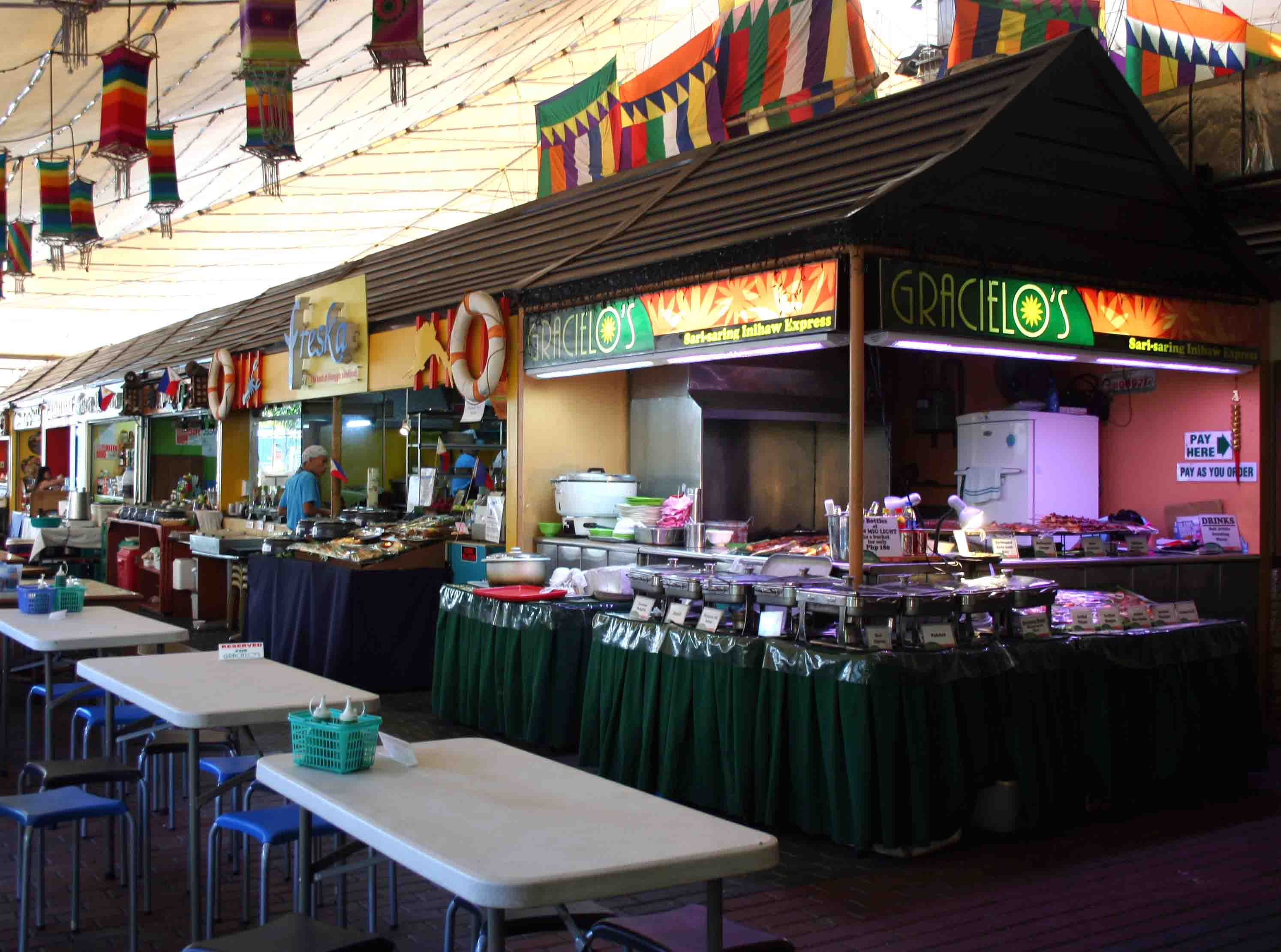 Picture of Food Village in Tiendesitas